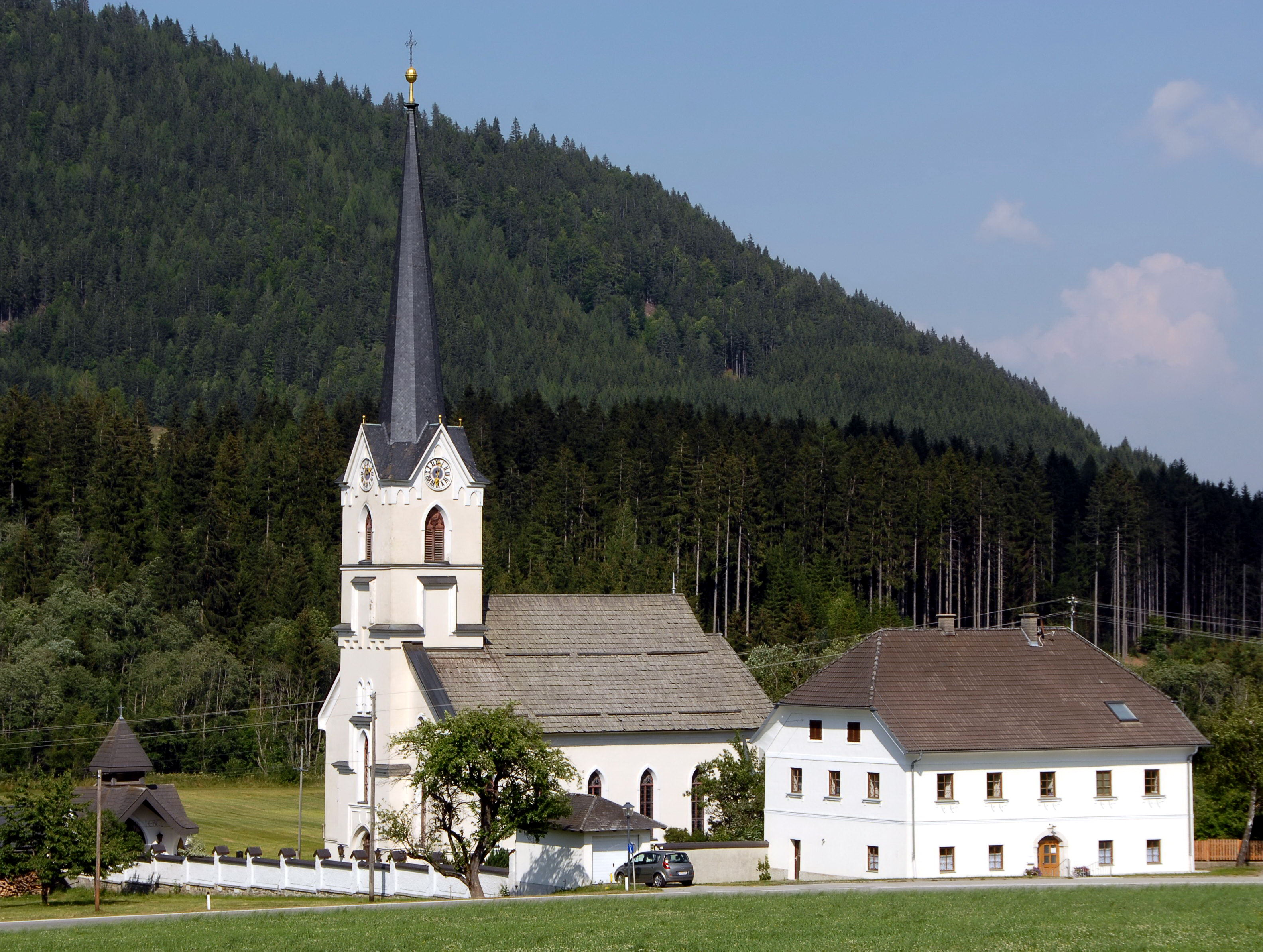 Lutheran parish church and rectory at Weissenbach, municipality Gnesau, district Feldkirchen, Carinthia, Austria, EU